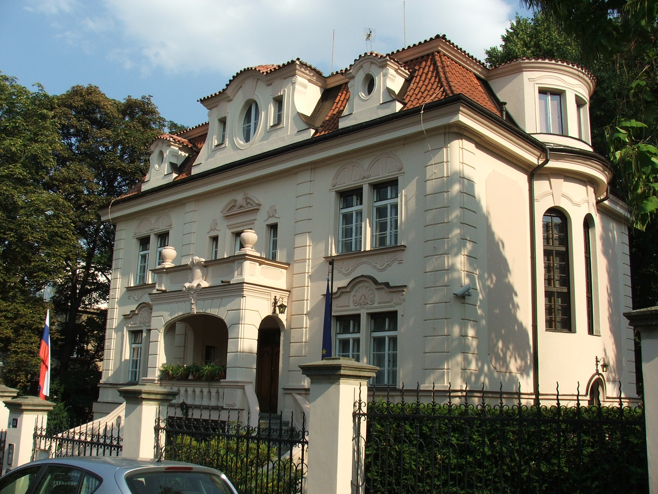 Embassy of Slovenia in Prague - Střešovice, Czechia.